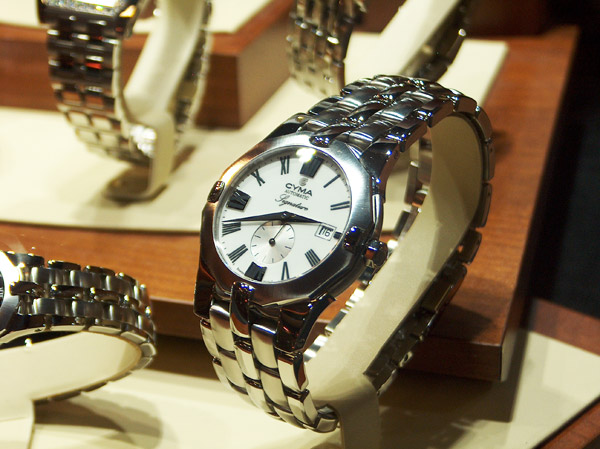 CYMA Signature Automatic watch on GTE exhibition, 2011